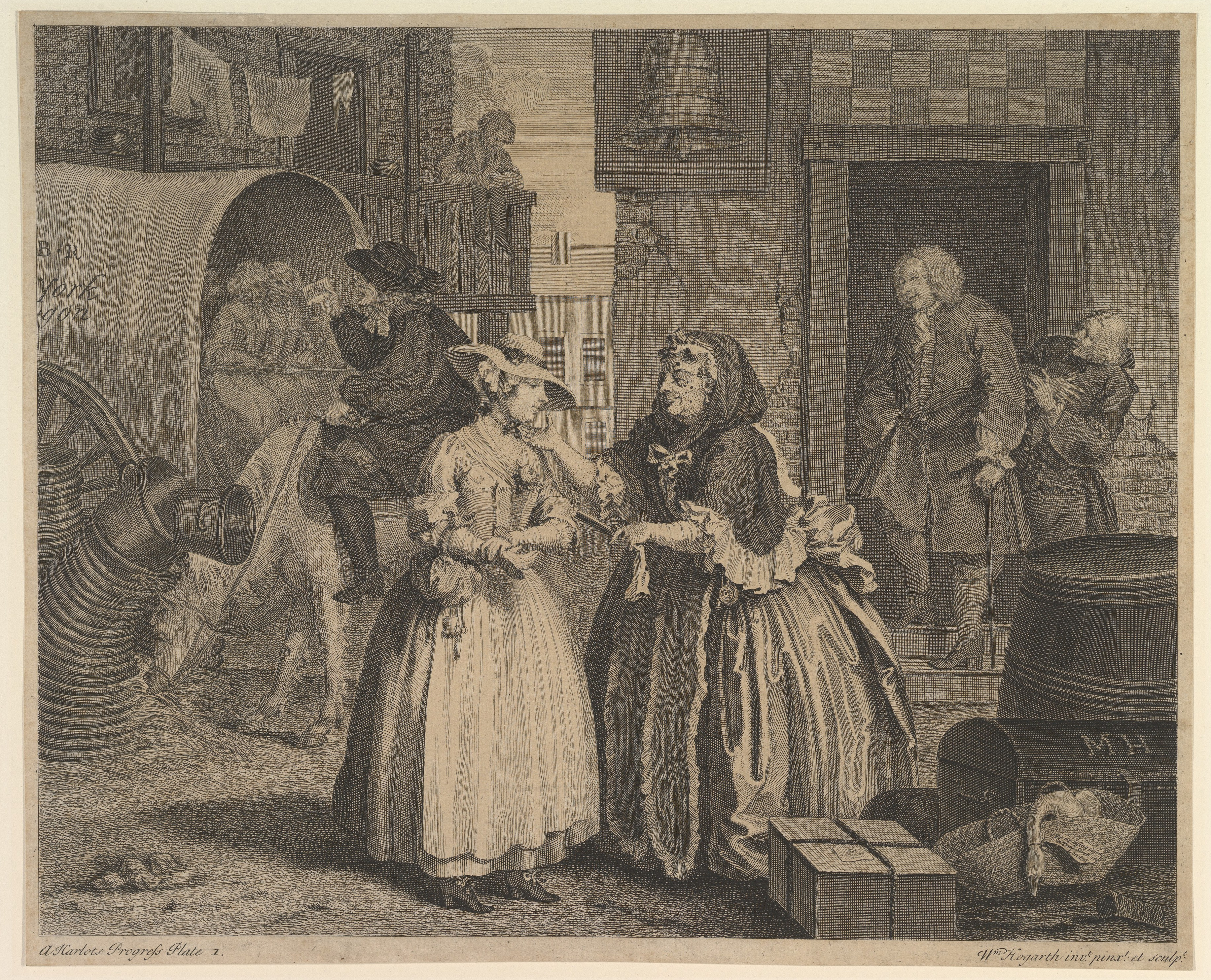 Print; Prints